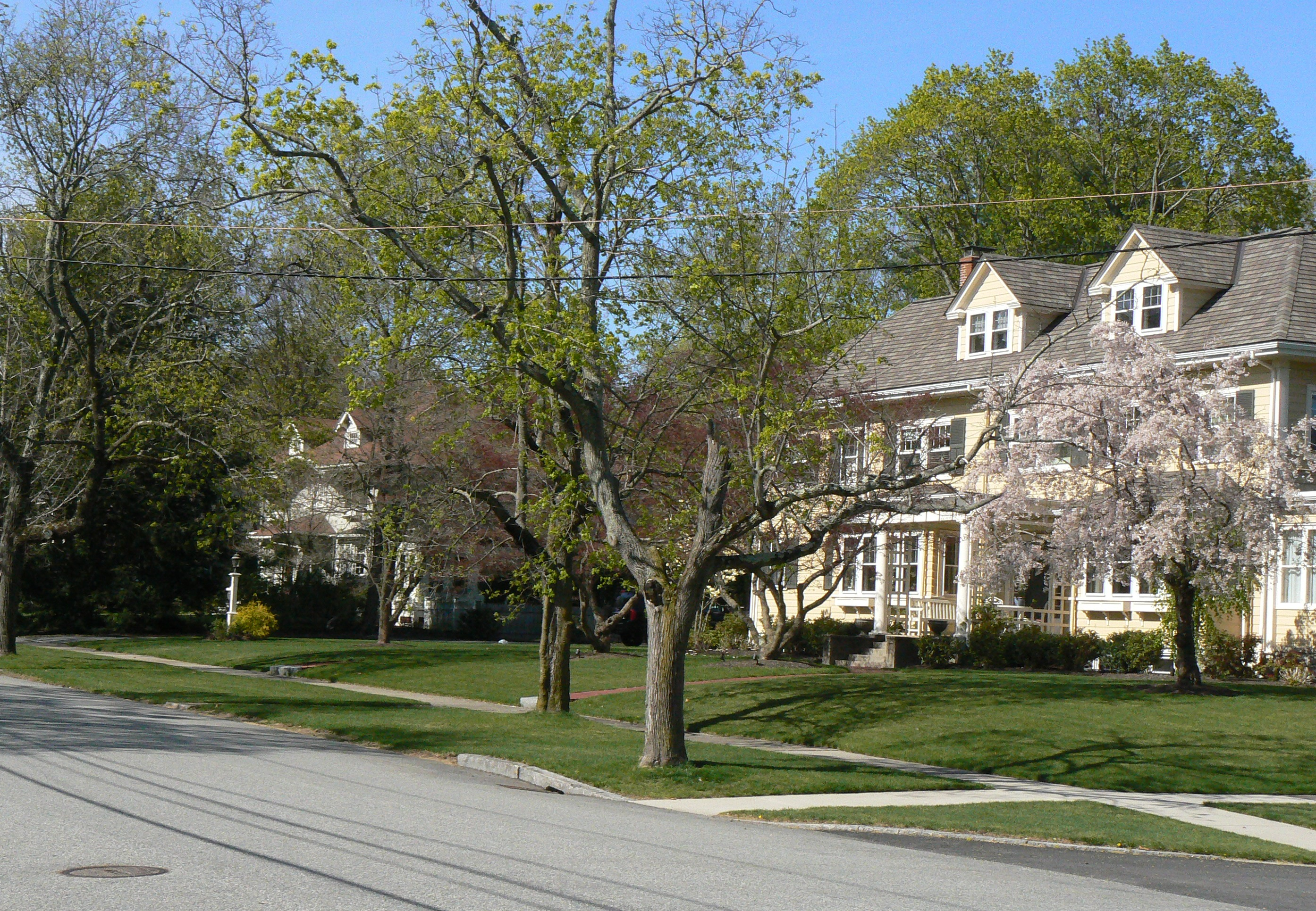 Houses on Wedgemere Street in the Wedgemere Historic District of Winchester, Massachusetts.